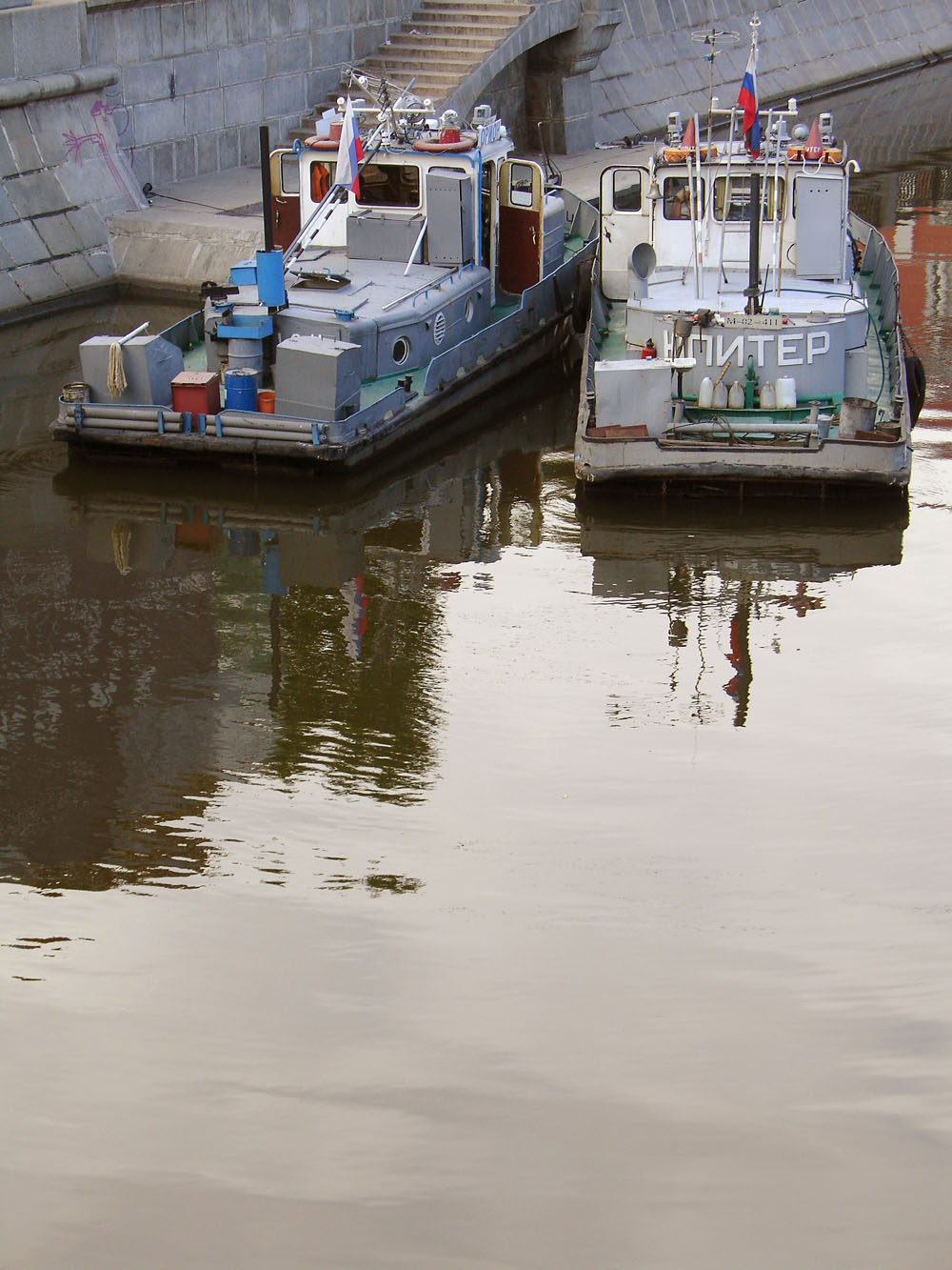 Two working boats by Ozerkovskaya Embankment in Moscow (photo taken from Maly Krasnokholmsky bridge. The one on the right is appropriately named Jupiter, Orion on the left